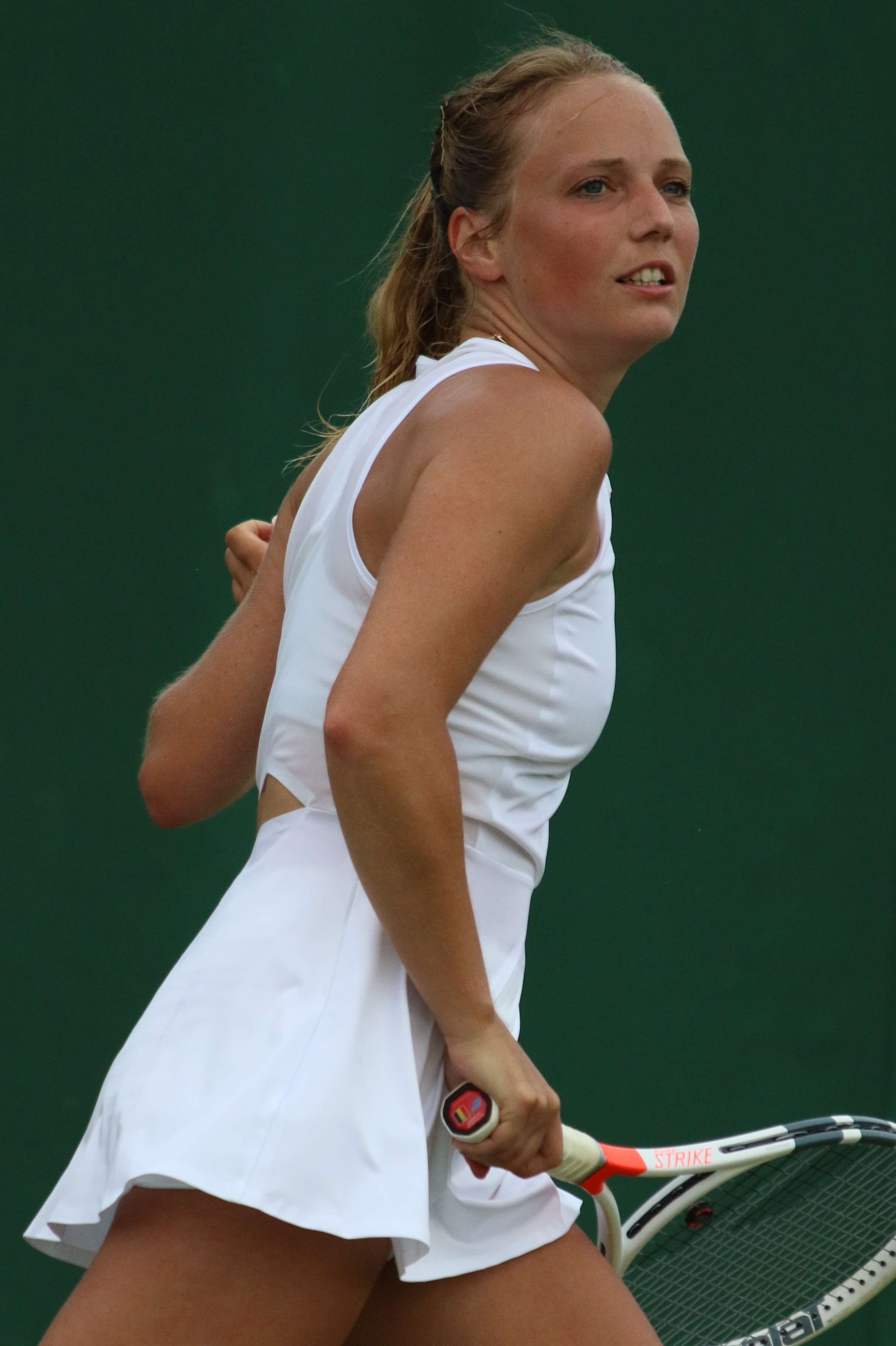 2019 Wimbledon Qualifying Tournament.